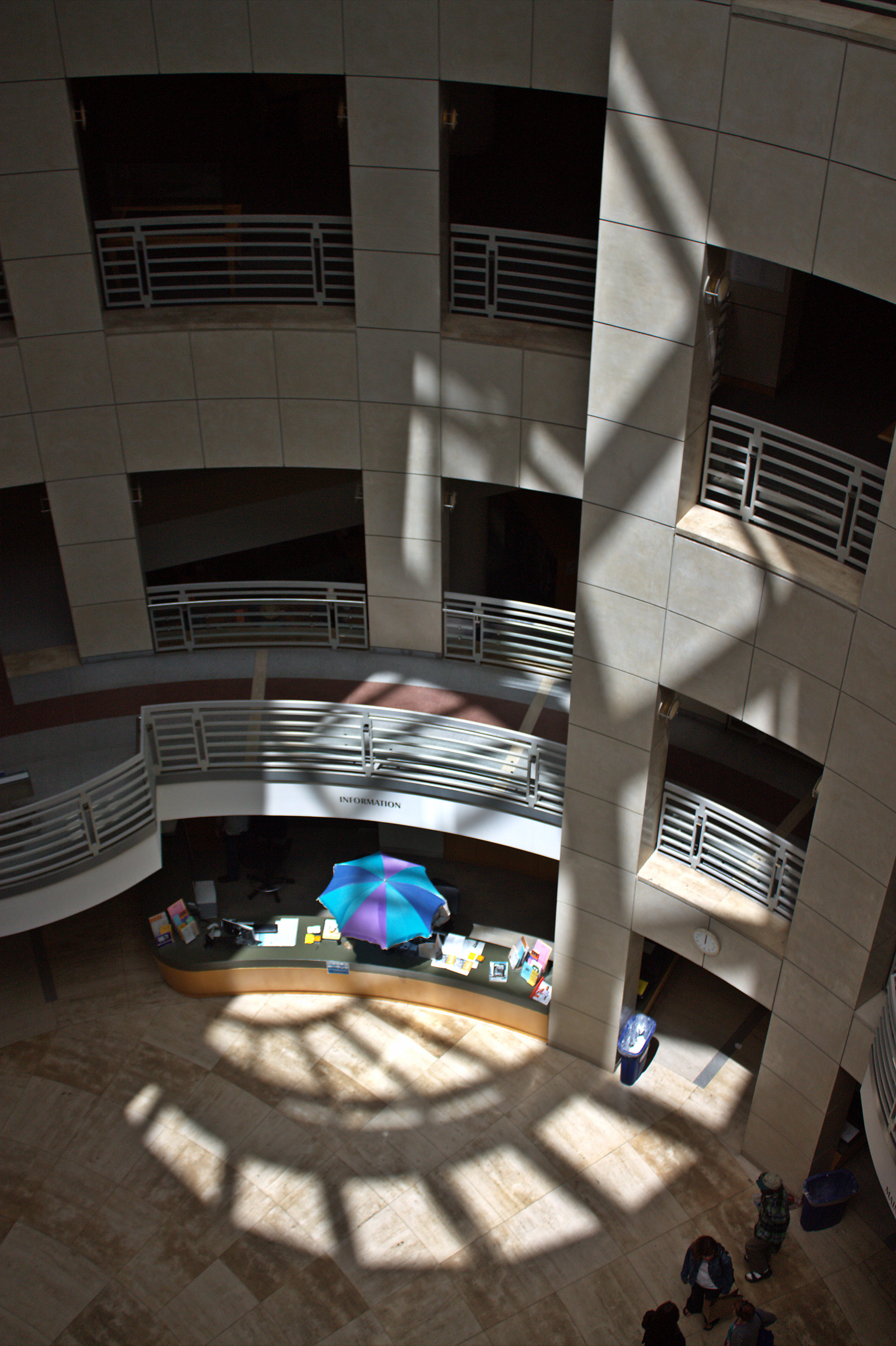 Light and shadow cast by skylight in San Francisco Public Library.